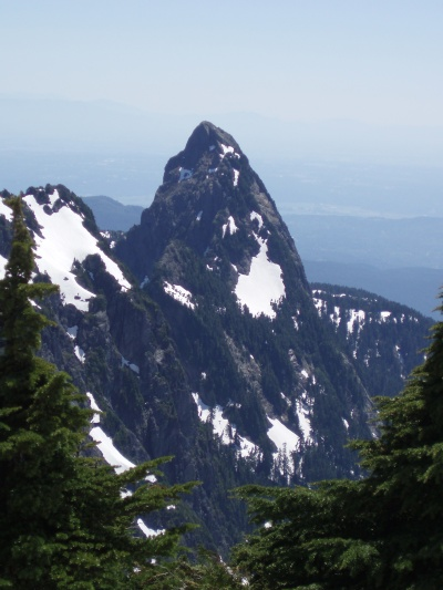 Blanshard Peak from the summit of Golden Ears (from the north, Edge Peak would be on the left.